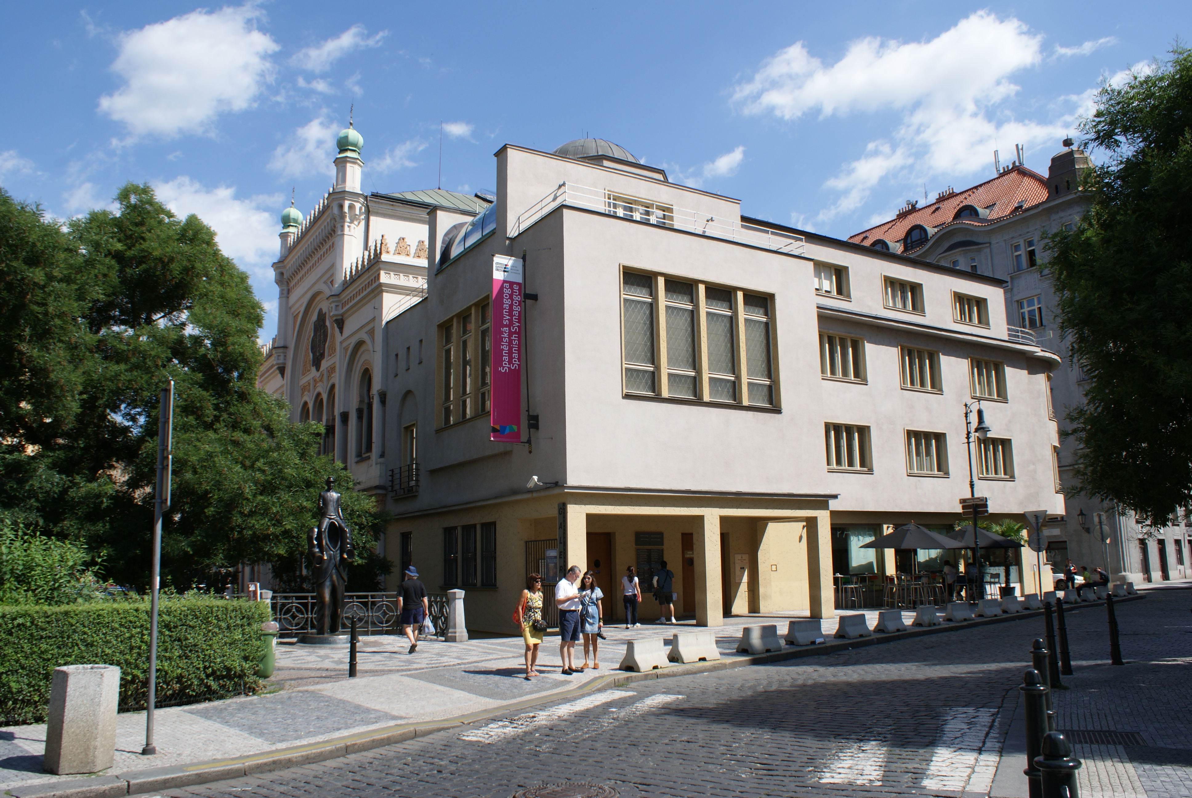 Jewish museum and the Spanish Synagogue in Prague, Czech Republic.